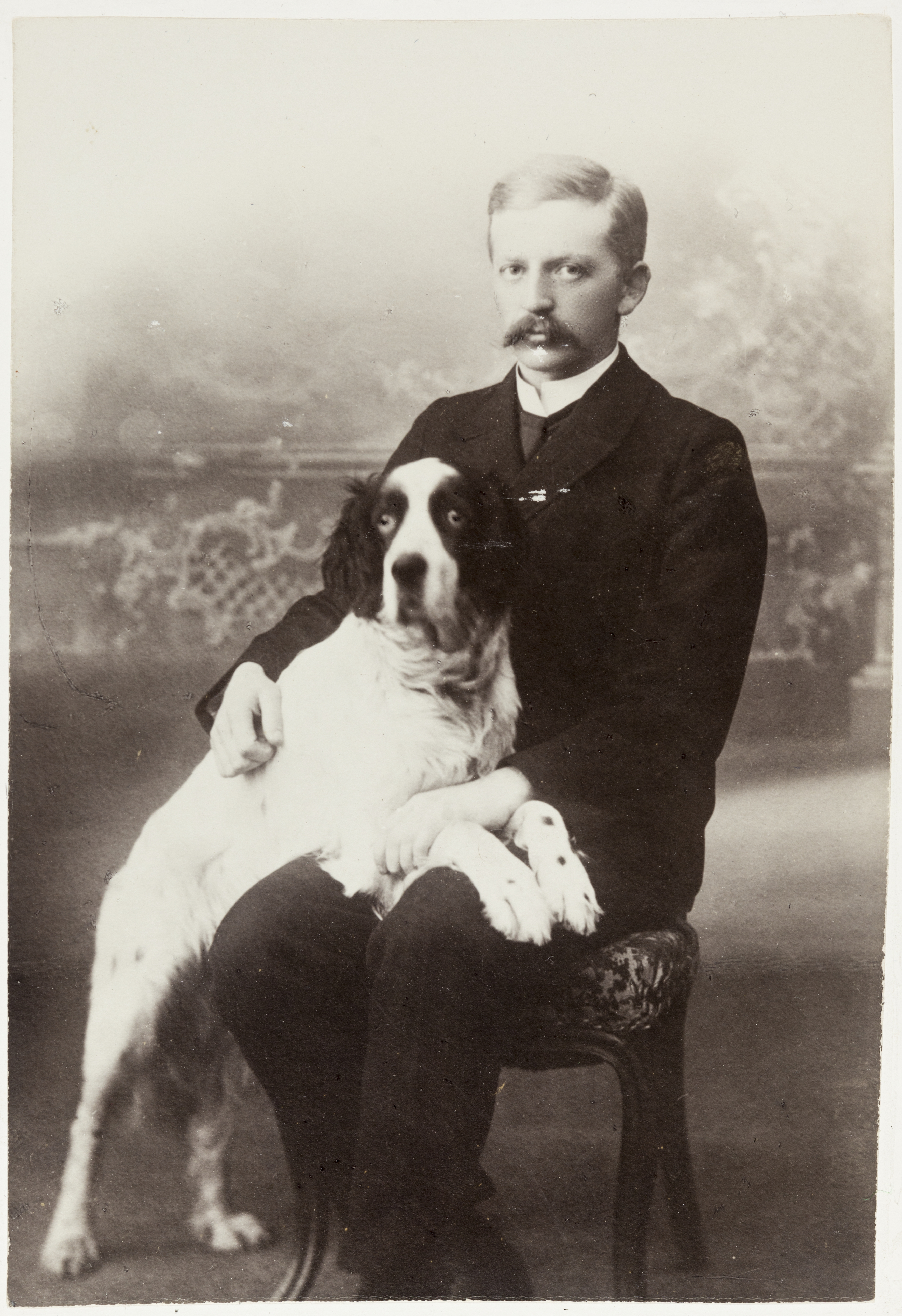 Eugen Schauman with his faithful hunting dog Lucas.